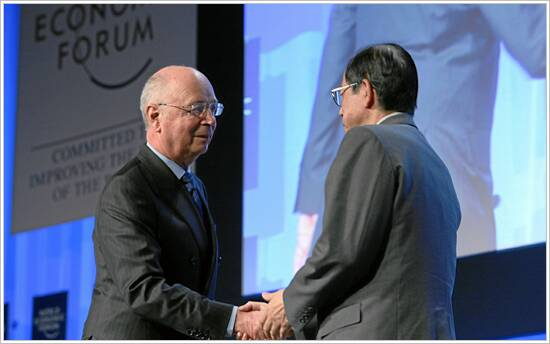 World Economic Forum Annual Meeting Davos 2008